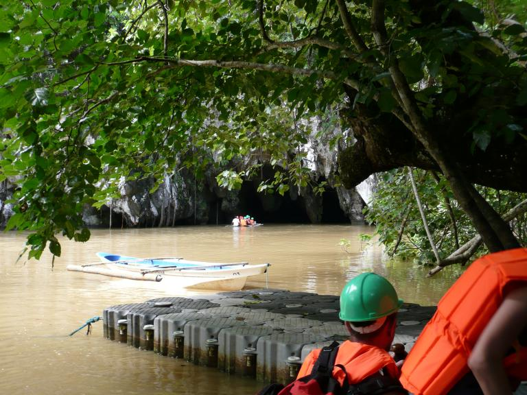 Entrance to underground river at Puerto Princesa Subterranean River National Park, Philippines